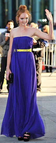 Lily Cole at the 2009 Toronto International Film Festival, for the screening of The Imaginarium of Doctor Parnassus.